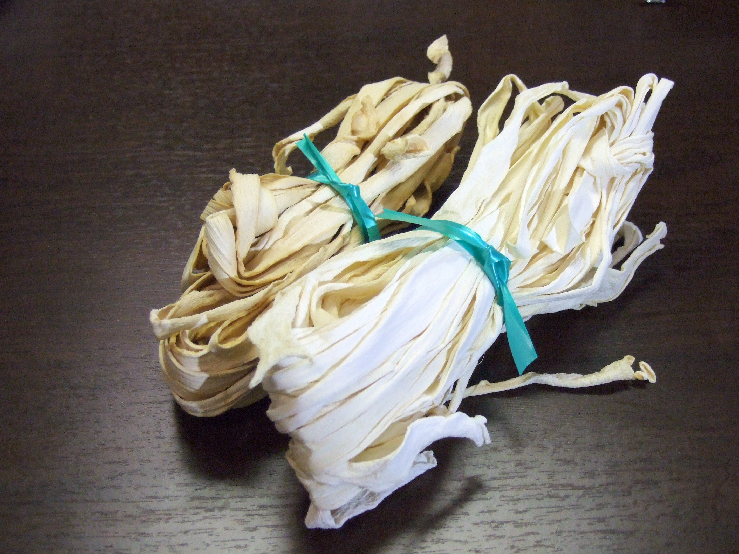 Kampyo (raw), dried shavings of Lagenaria siceraria var. hispida (yūgao, 夕顔)